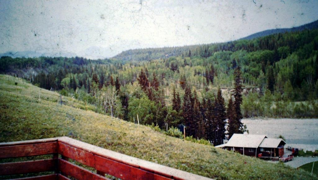 I took this photo from our verandah while living in the Ghost river Valley in 1970